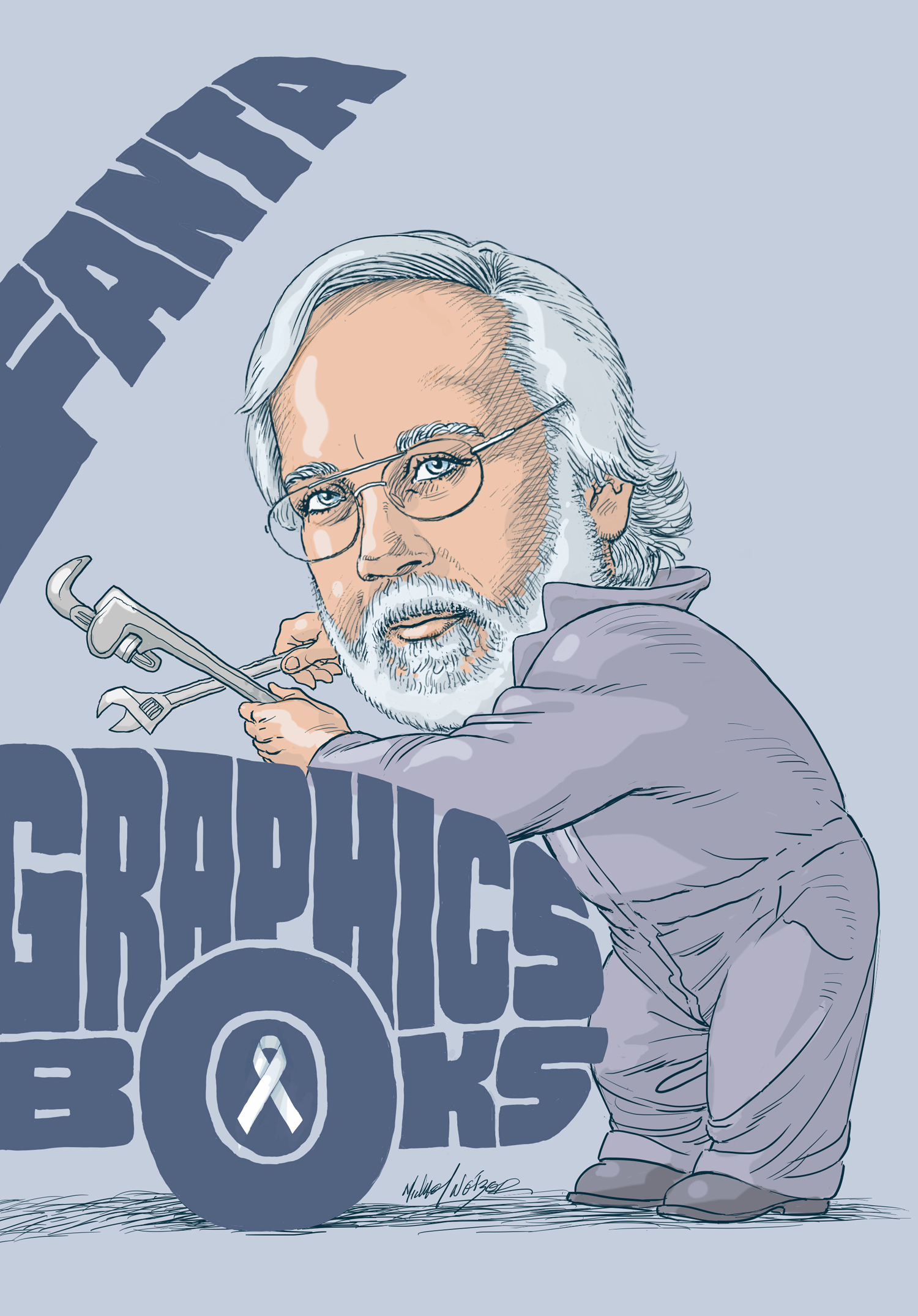 Portrait of Fantagraphics Books vice-president and co-owner Kim Thompson, from Michael Netzer's Portraits of the Creators Sketchbook.